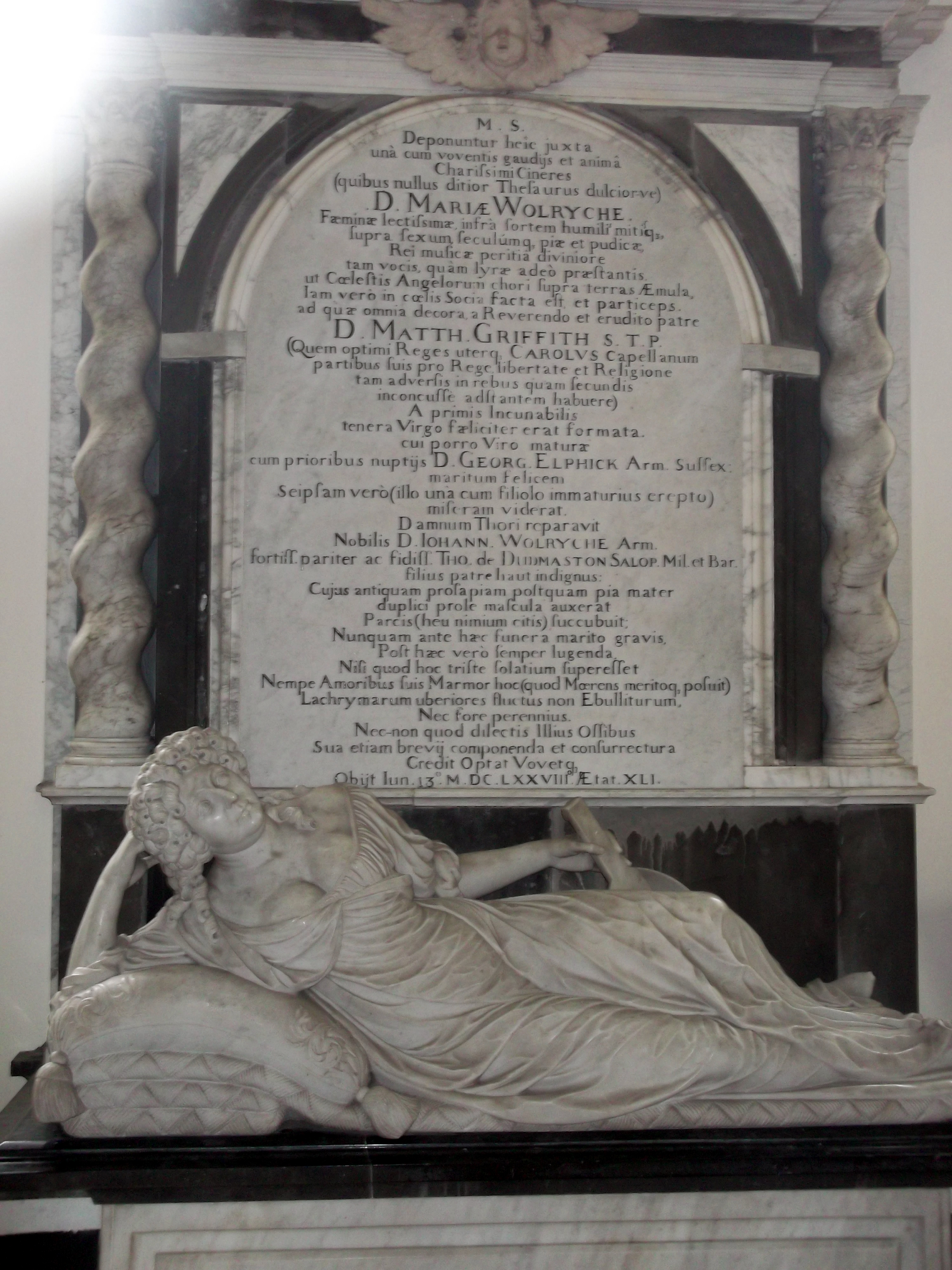 Monument to Mary Wolryche nee Griffith (died 1678), wife of John Wolryche of Dudmaston. St Andrew's church, Quatt, Shropshire.